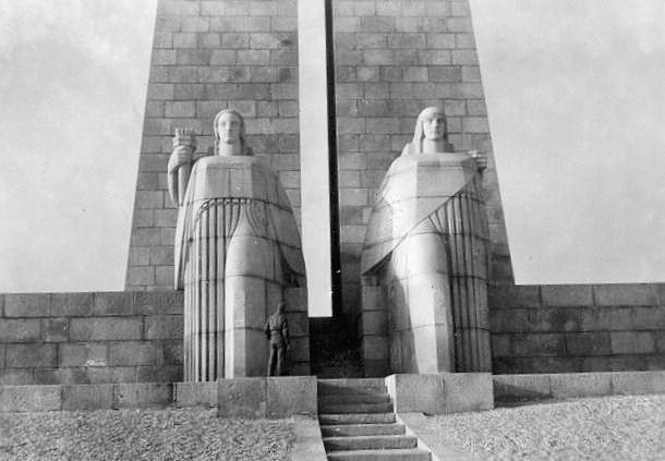 Ismailia, Unknown Soldier War Memorial